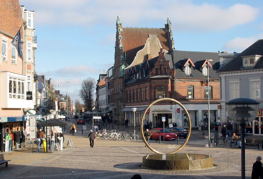 Hjørring - a town in northern Denmark. The ring is a sculpture called The sun ring by Claes Hake.